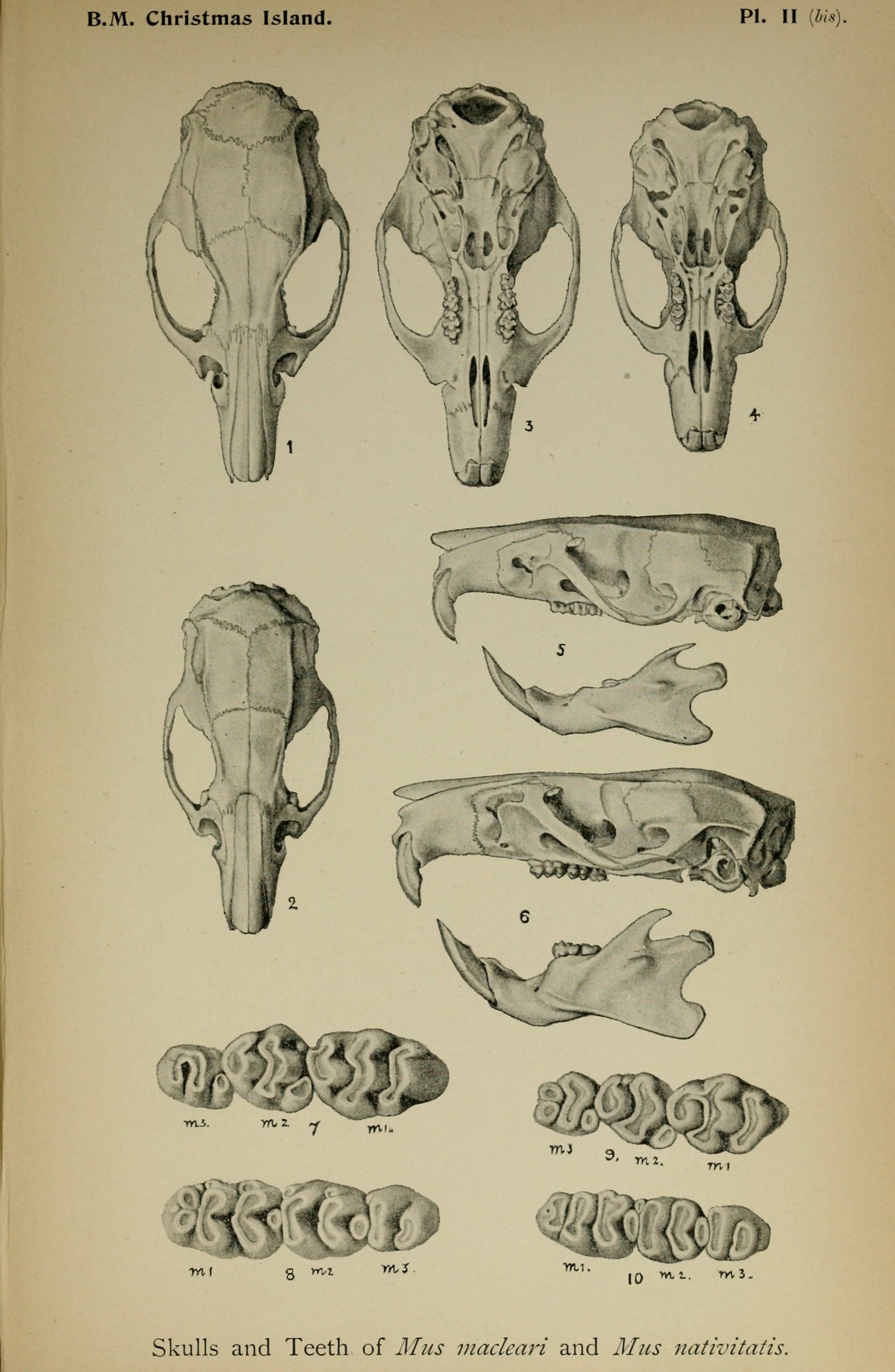 Plate II from A monograph of Christmas Island (Indian Ocean). It shows the skulls of the Maclear's Rat (Rattus macleari) and the Bulldog Rat (Rattus nativitatis), two recently extinct rat species from Christmas Island (Australia). The Maclear's Rat (Mus macleari): Figs. 1, 3, 6, 7, 8. The Bulldog Rat (Mus nativitatis): Figs. 2, 4, 5, 9, 10. Figs. 1 and 2, cranium from above; Figs. 3 and 4, from below; Figs. 5 and 6, side view with lower jaw; Figs. 7-9, right upper molar series; Figs. 8 and 10, right lower molar series. Figs. 7-10 X 4; the others natural size.